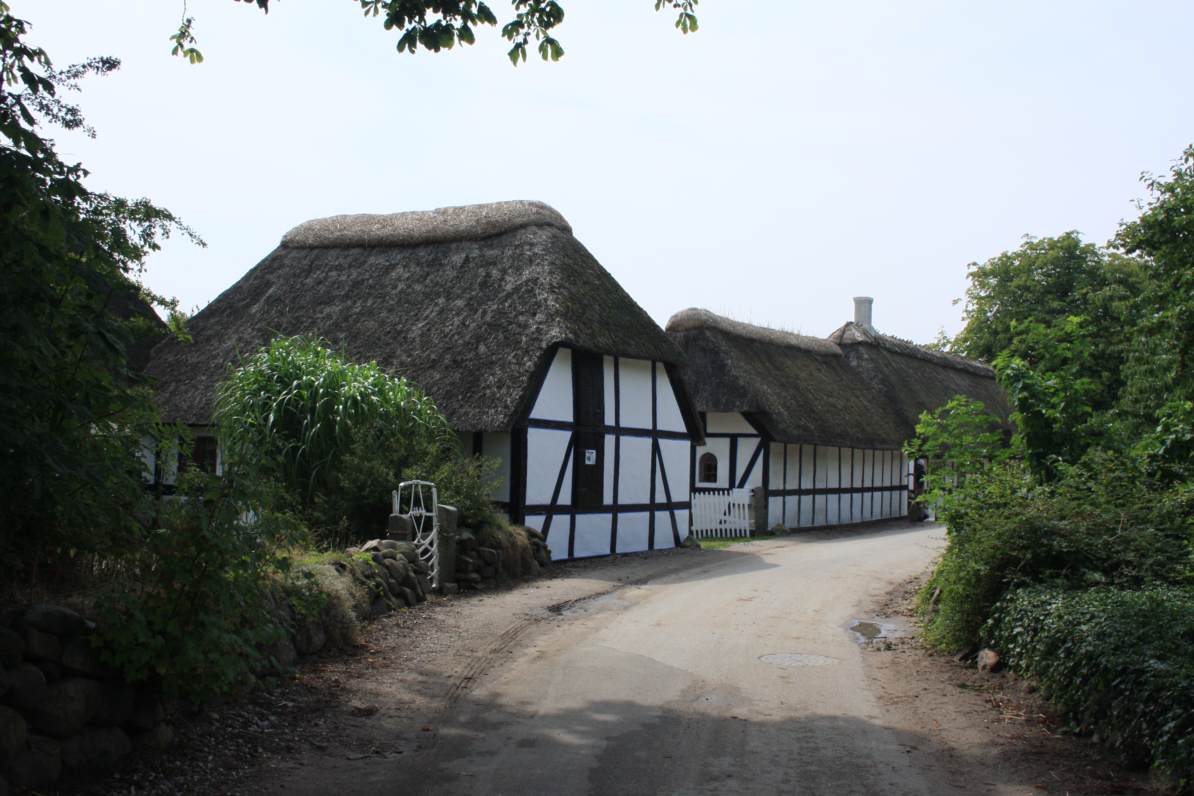 Typical house in the village of Lyø